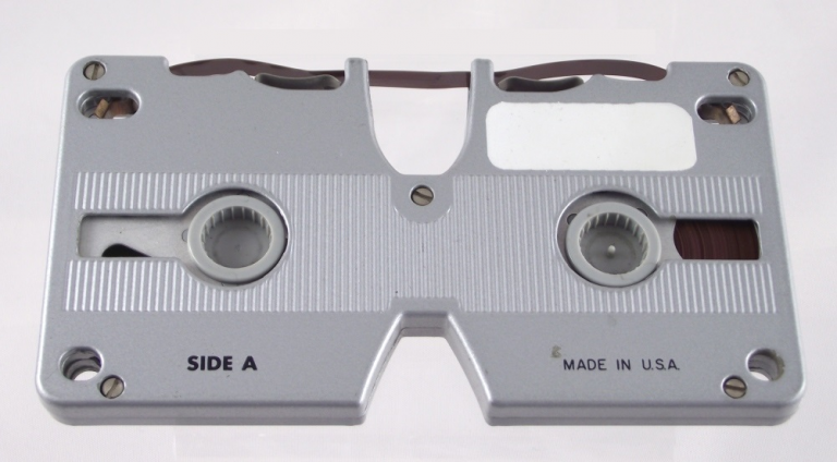 Dictet cassette - Analog, ¼ tape, 2.48 in/s, (3" reels housed 5.875 x 3 x .4375 inch cassette), developed by the Dictaphone Corp, was the very first dictation machine to use magnetic tape cassettes